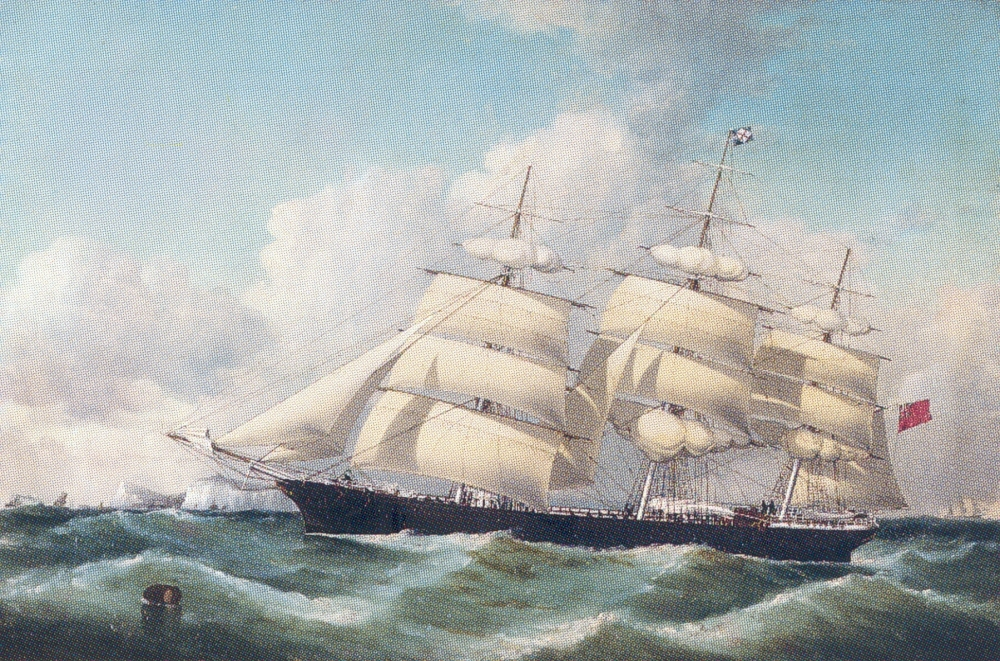 Willis Tea Line Clipper, by Frederick Tudgay. Oil on Canvas. John Willis & Sons of London, also called the Jock Willis Shipping Line, was a nineteenth century London based ship owning firm.